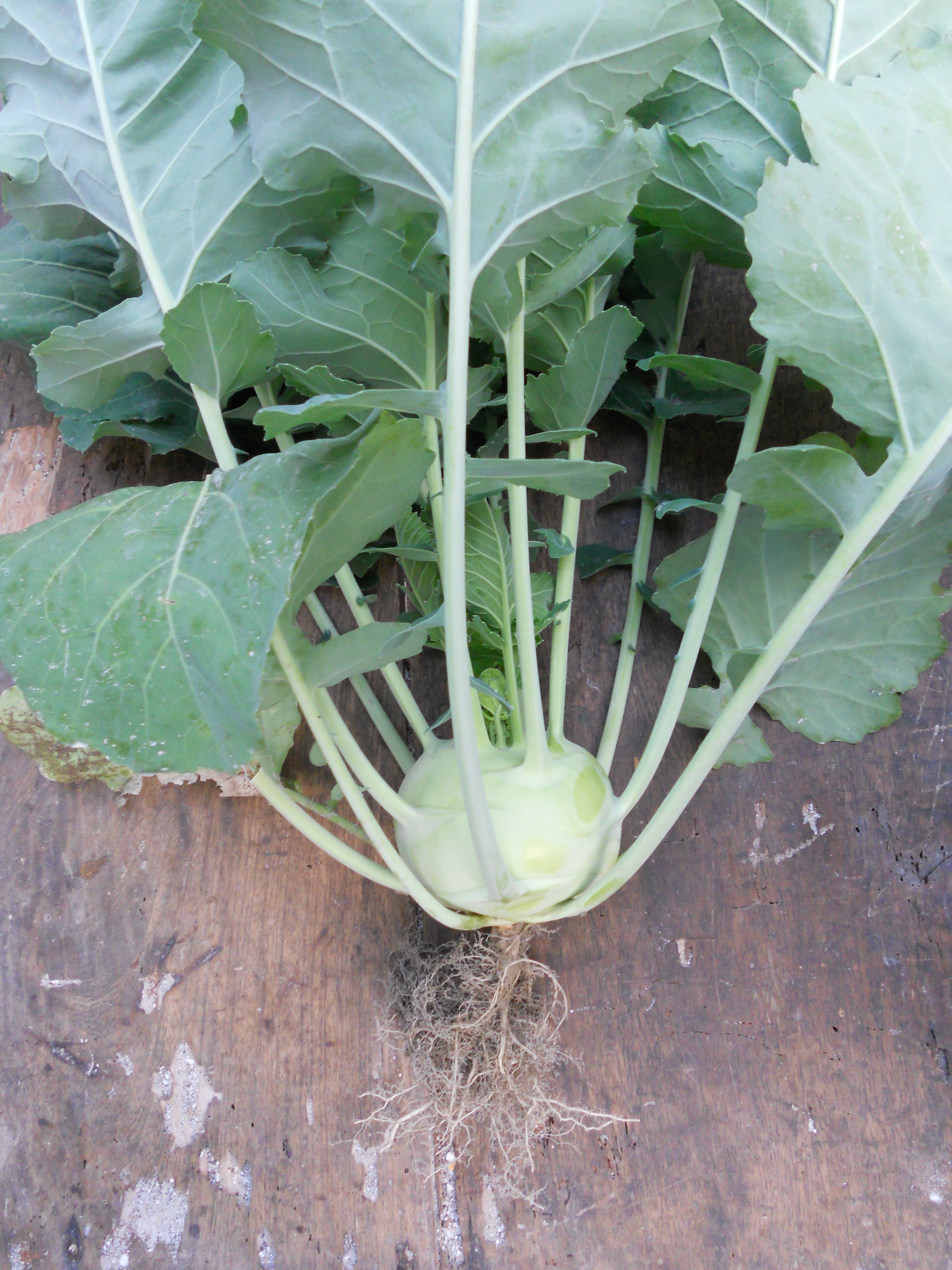 Brassica oleracea: Gongylodes group